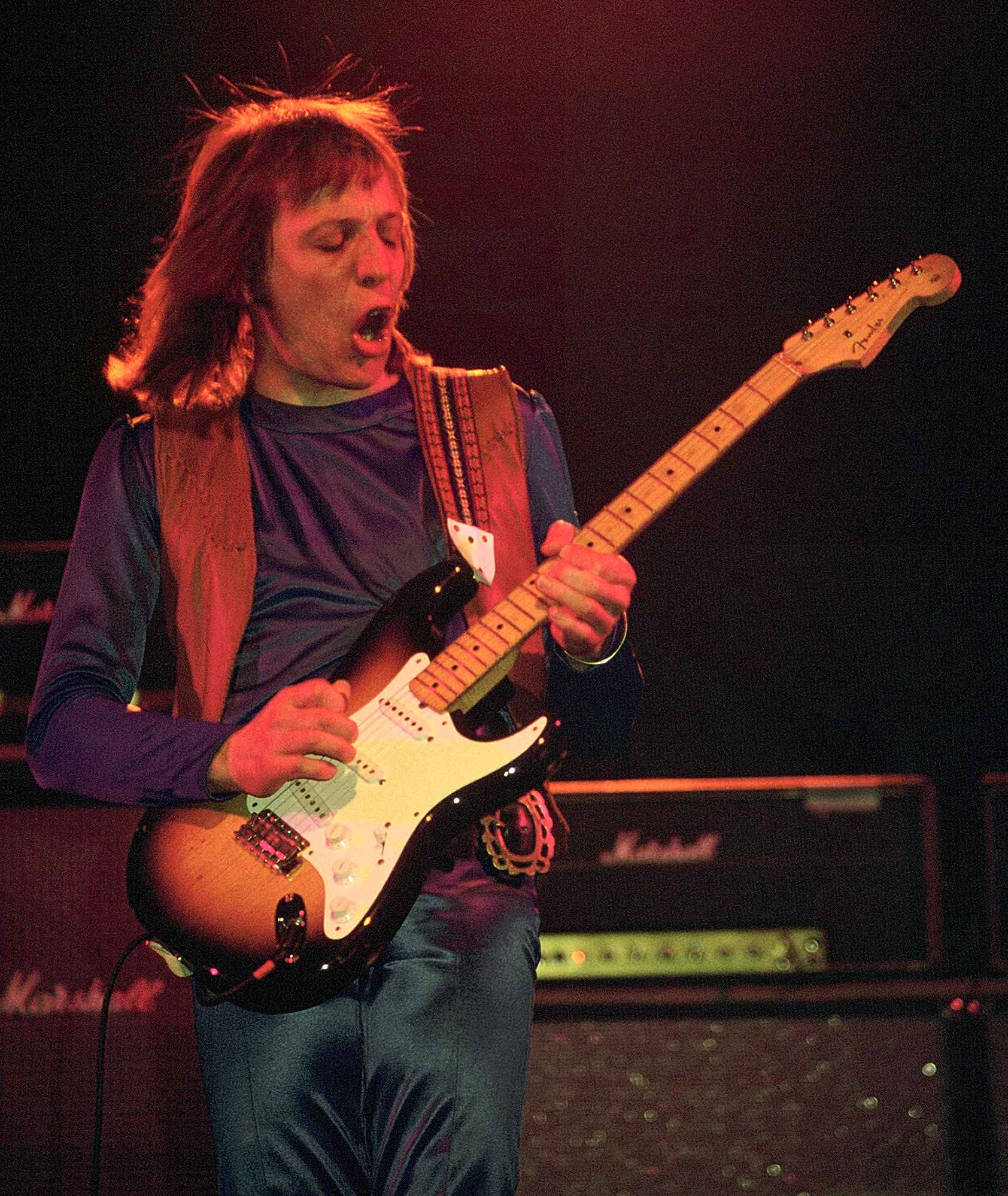 Robin Trower, English rock guitarist